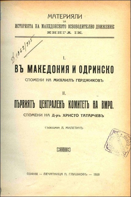 Mihail Gerdzhikov's and Hristo Tatarchev's Memoirs